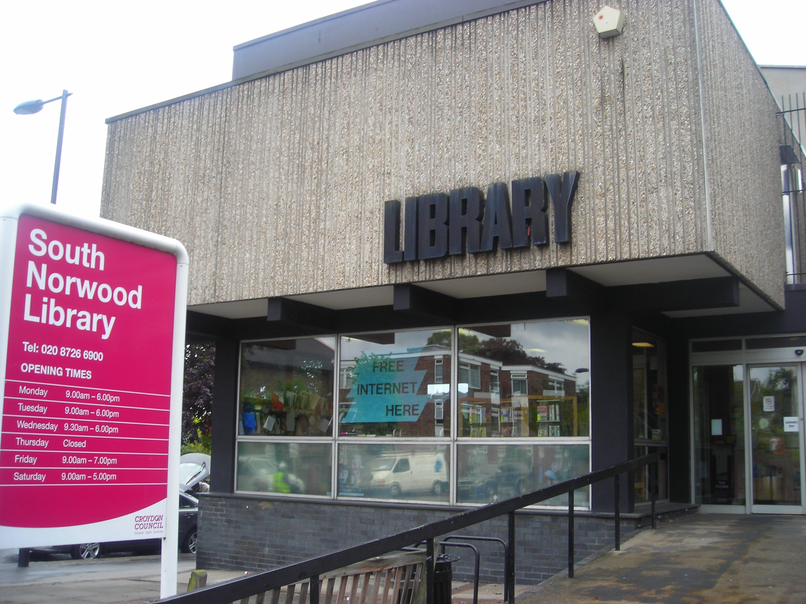 Picture of South Norwood Library